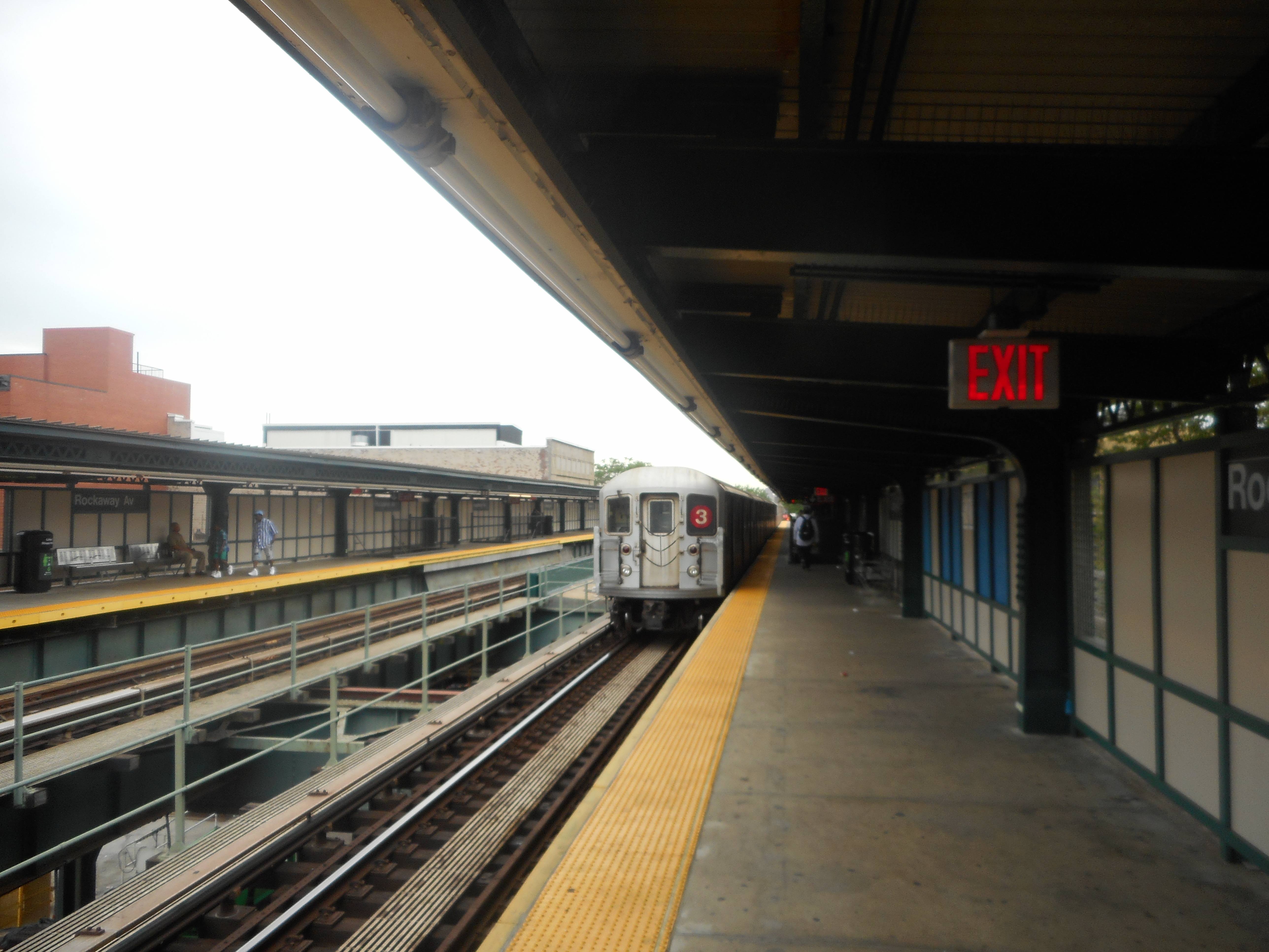 A Lenox Terminal-bound R62 train leaves the Rockaway Avenue Elevated Station on the IRT New Lots Line in the Brownsville section of Brooklyn, New York City. Due to the April through October 2016 renovation project, this train will be skipping the Saratoga Avenue Elevated Station.